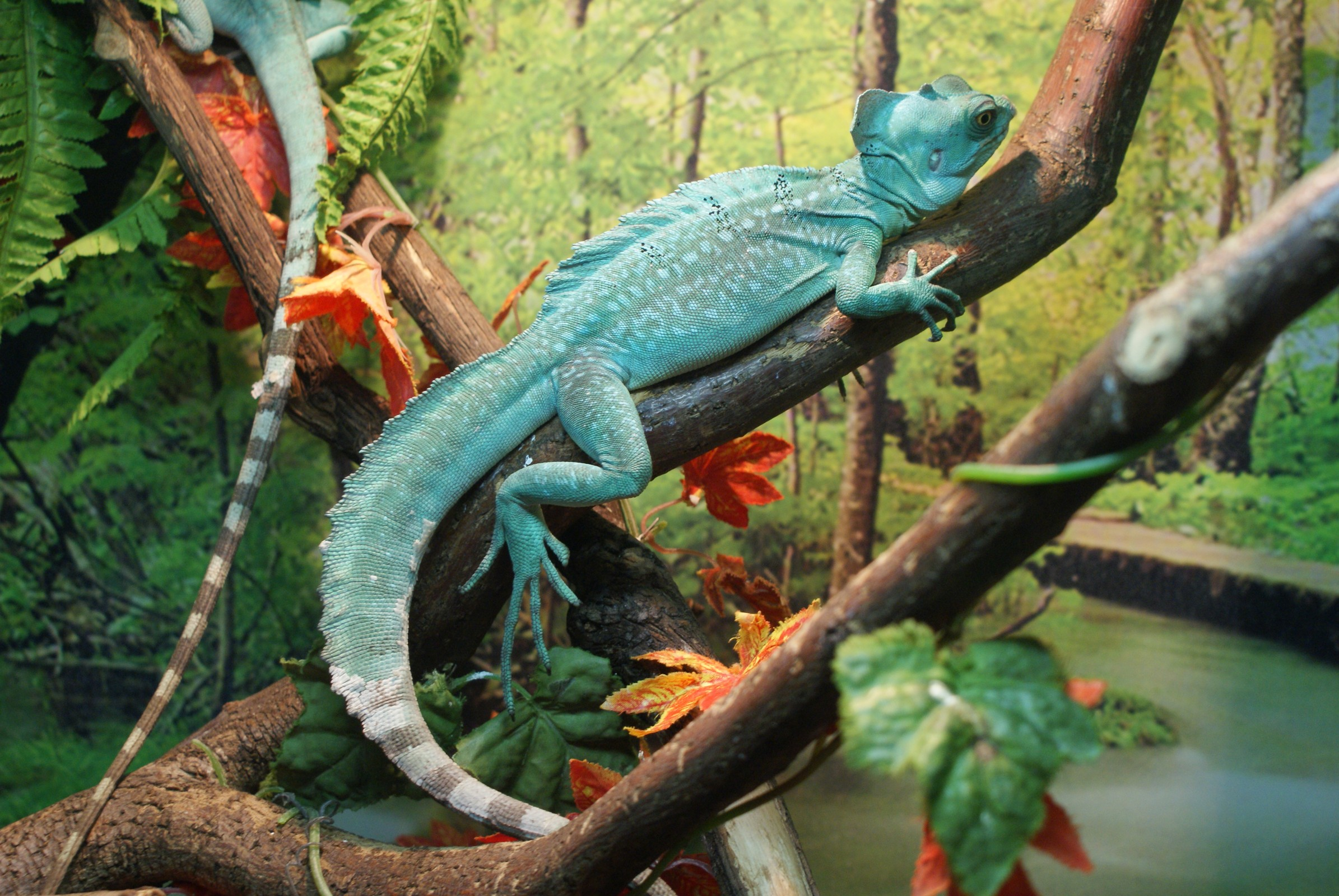 Basiliscus basiliscus in Minsk Zoo